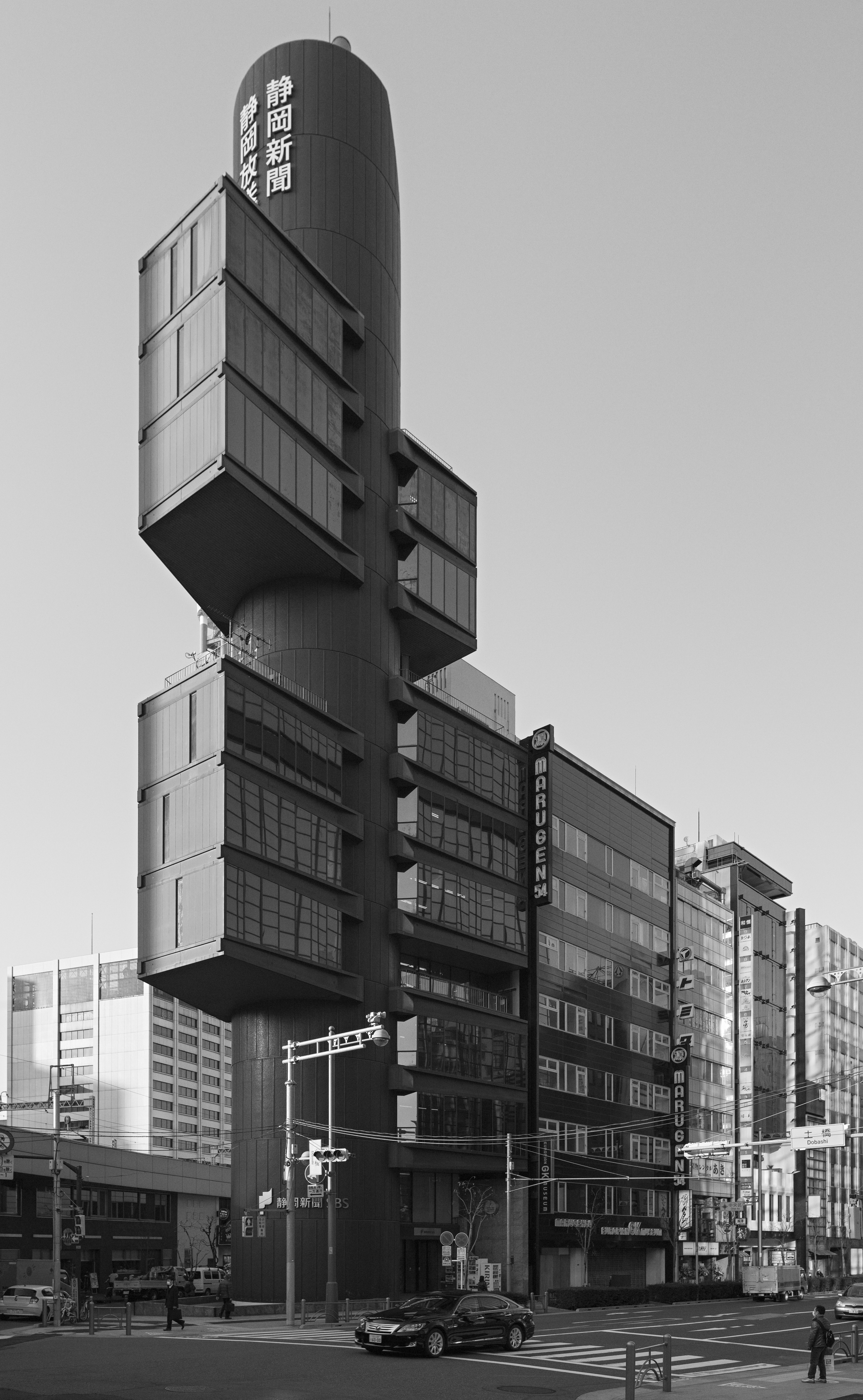 Shizuoka Press and Broadcasting Center by architect Kenzo Tange. Photograph by Jonathan Savoie